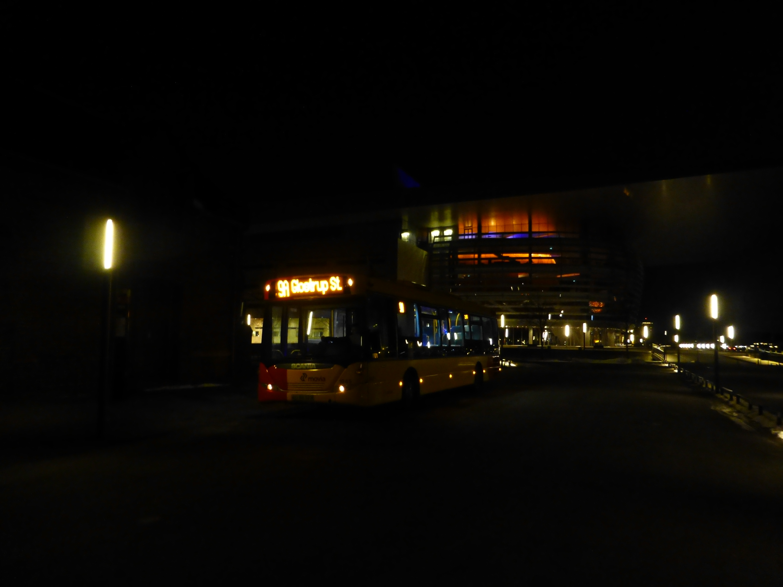 The very first bus on the new Movia bus line 9A at the Opera House in Copenhagen.